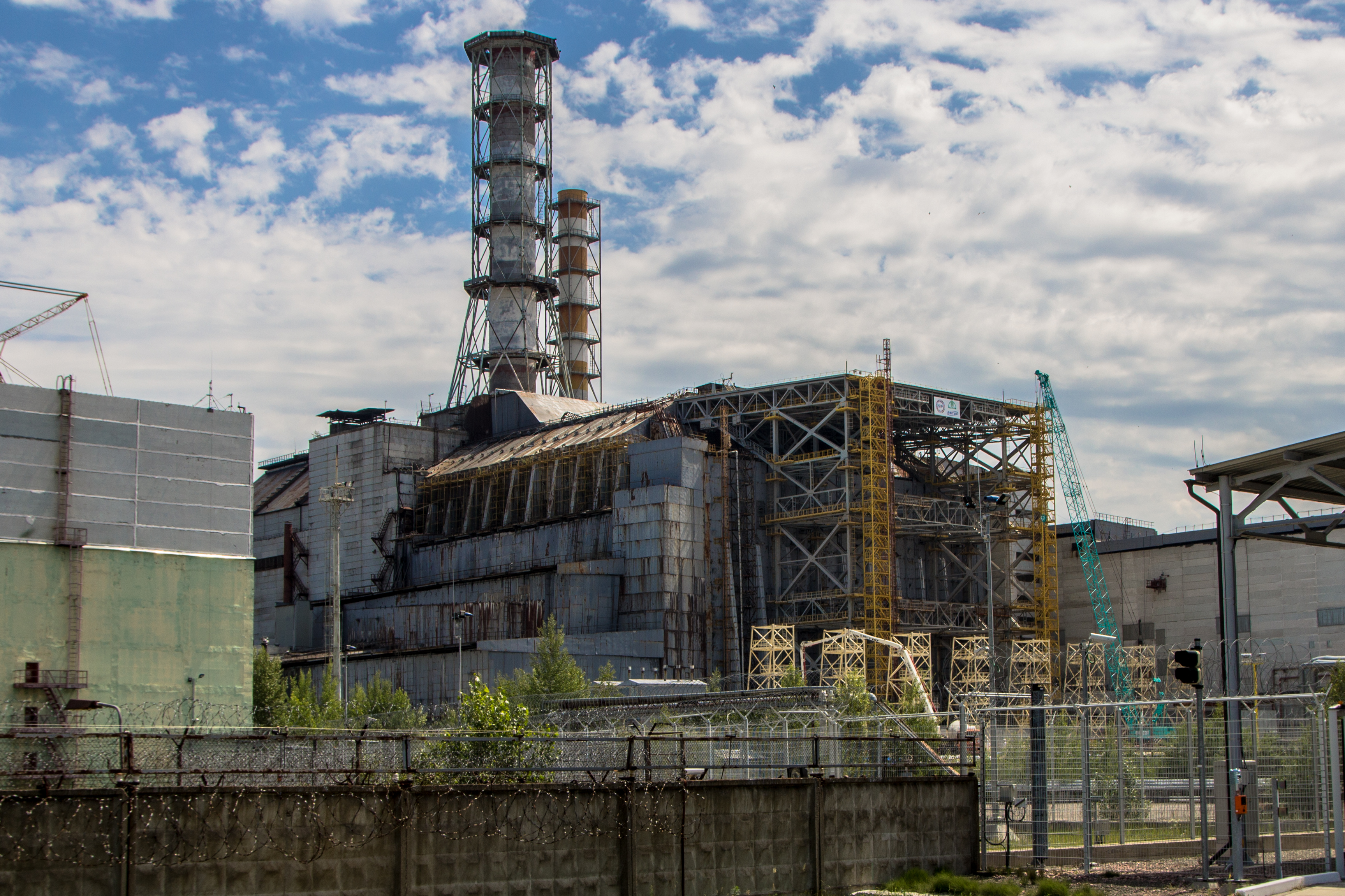 Chernobyl Nuclear Power Plant 2013